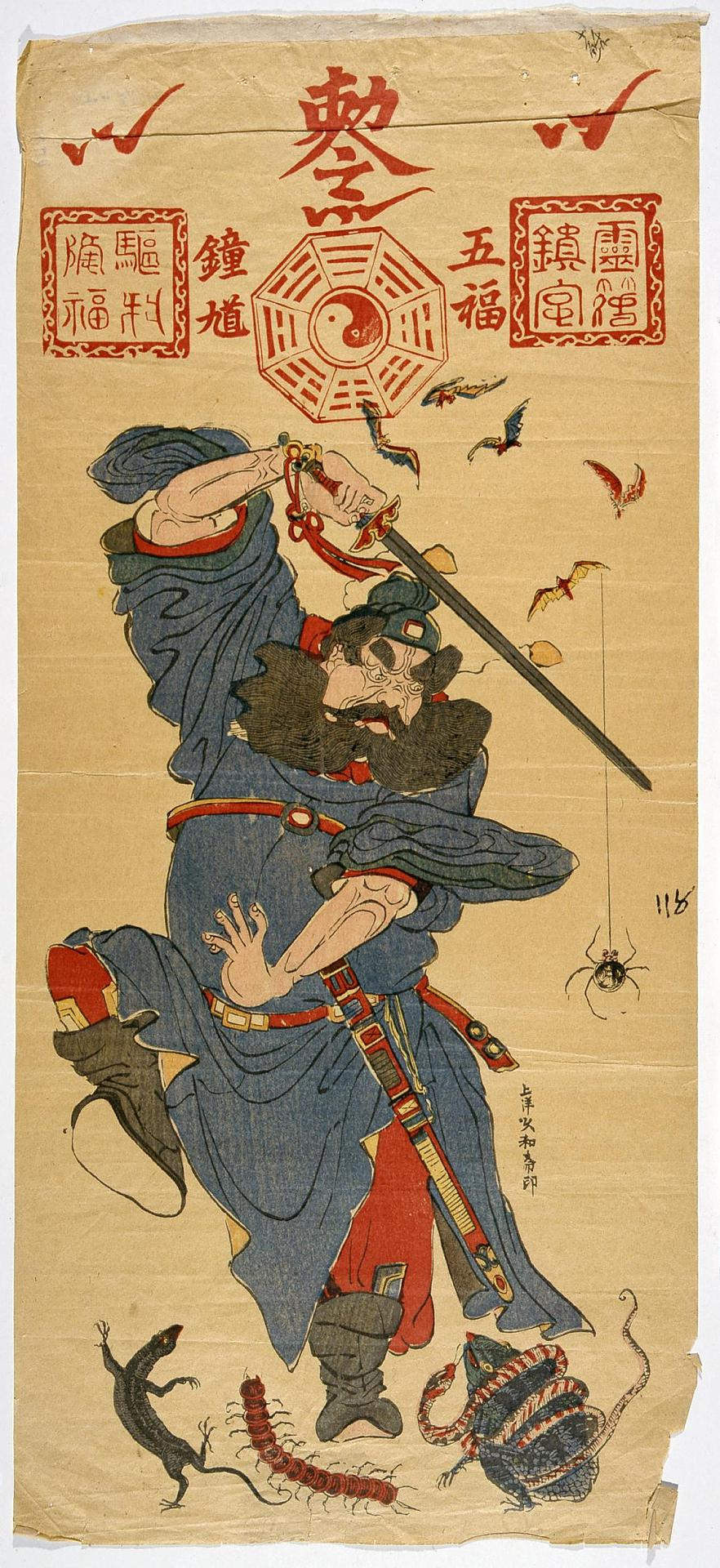 This depicts the demon queller Zhong Kui (鍾馗) with five bats representing the five blessings (五福) and five other creatures.